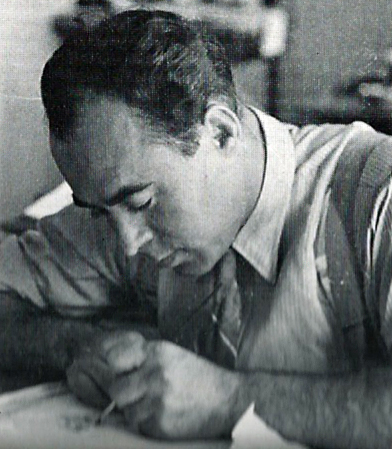 Finnish graphic artist and opera tenor Arnold Tilgmann working at ad agency Erva-Latvala.